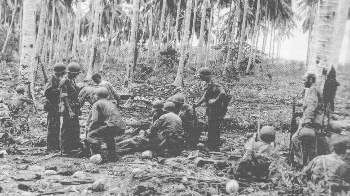 U.S. Marine wounded are evacuated during the Koli Point action on Guadalcanal in November, 1942.